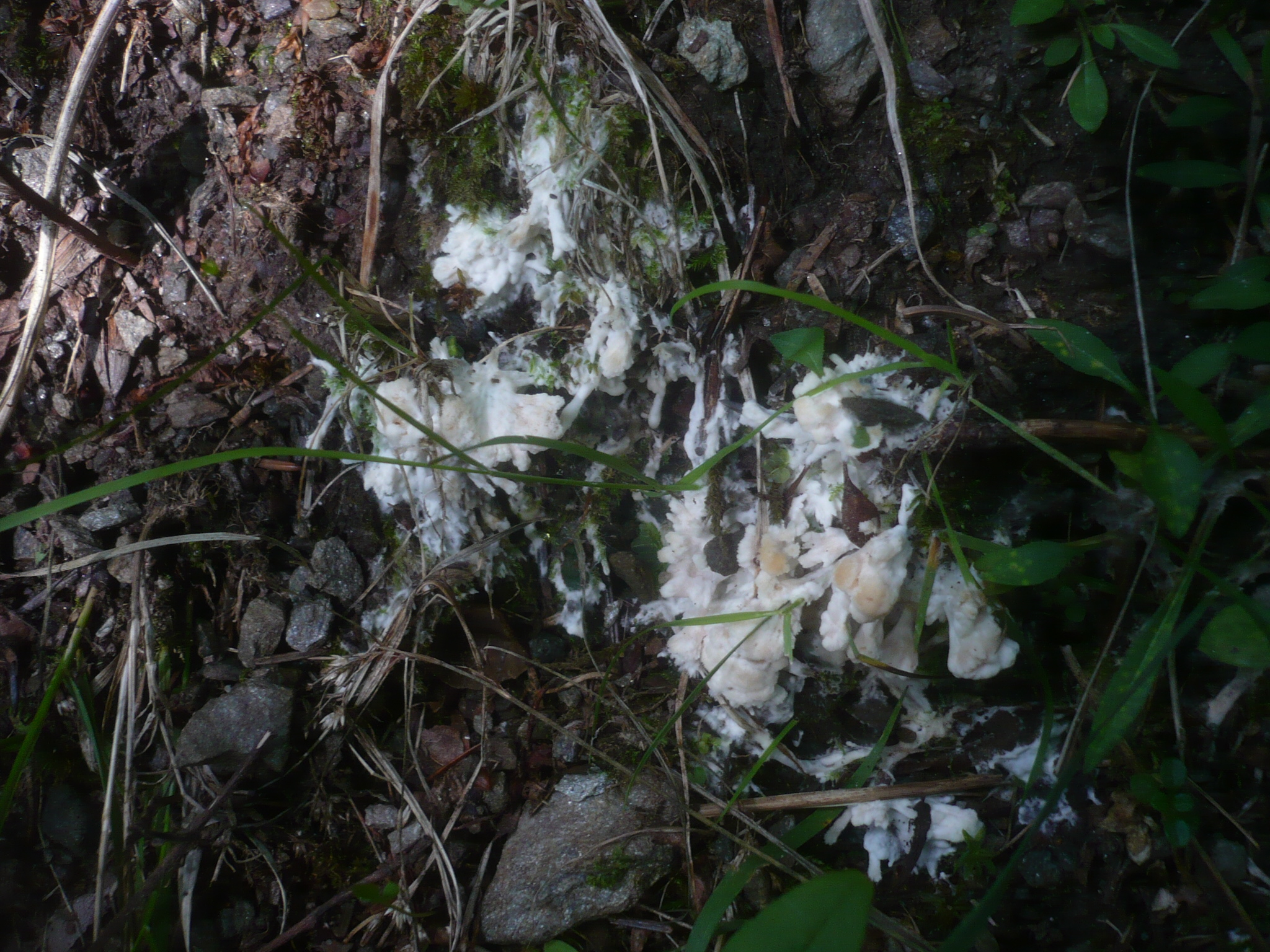 Sebacina incrustans (Pers. :Fr.) Tul. & C. Tul. Image location: Burgruine Rauhenfest, Malta, Carinthia, Austria Recognized by sight Based on microscopic features For more information about this, see the observation page at Mushroom Observer.